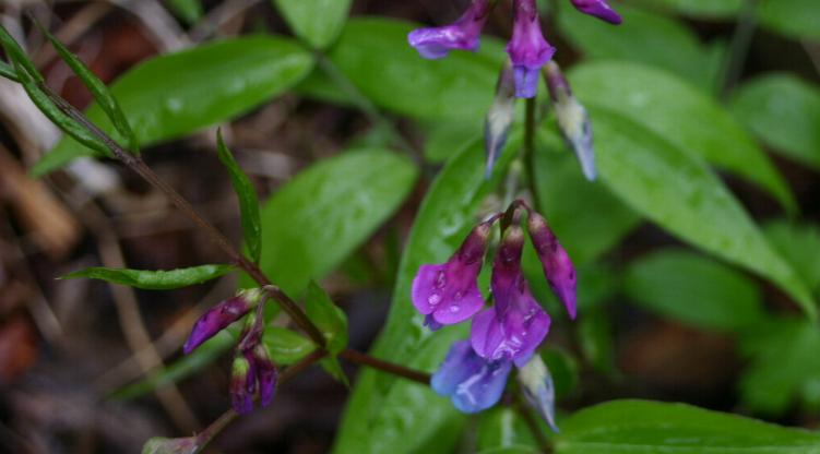 Lathyrus vernus: Flowers and leaves.